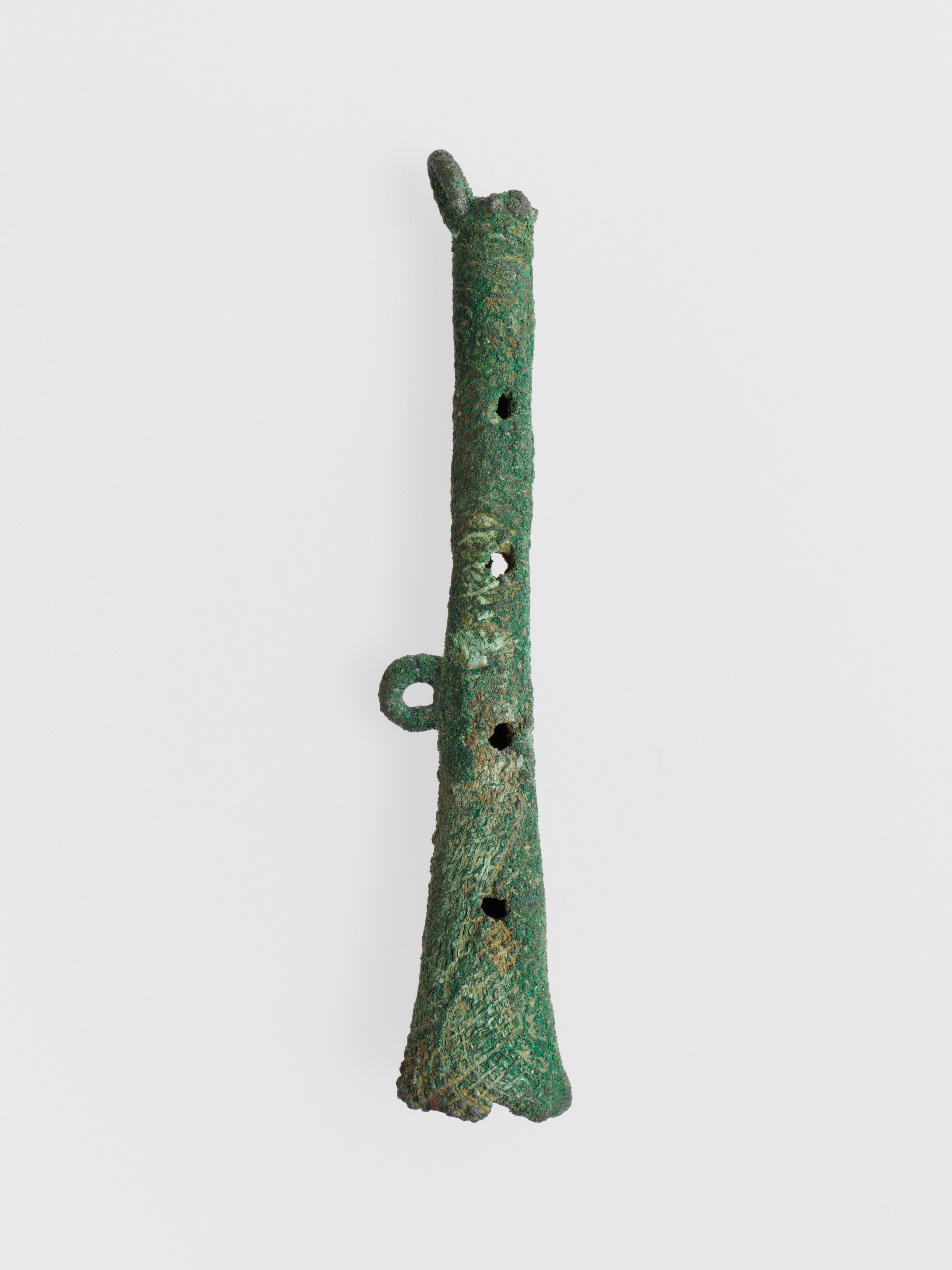 Moche?; Quena (Kena); Aerophone-Blow Hole-end-blown flute (vertical)